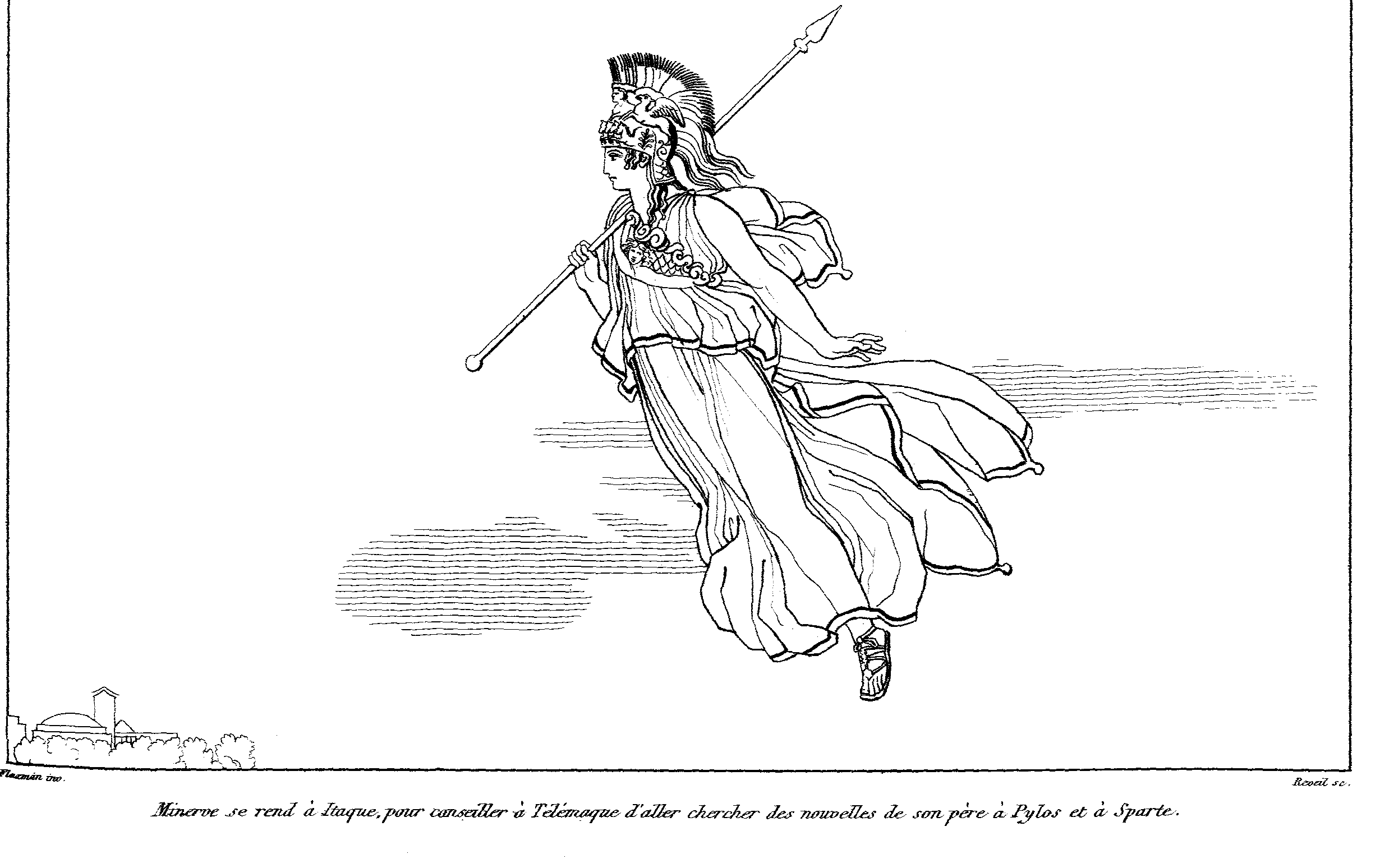 Illustrations of Odyssey